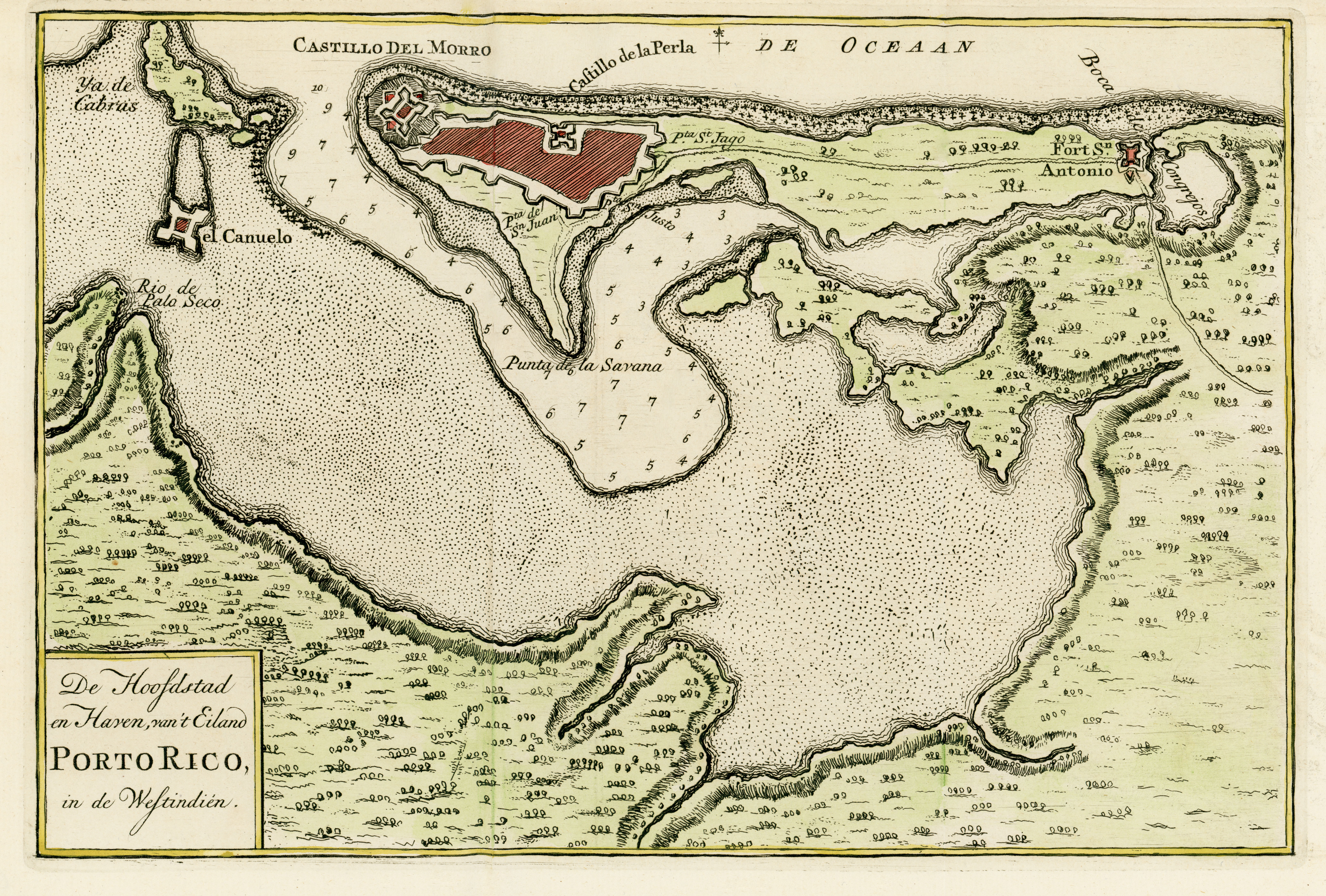 Map of San Juan, Puerto Rico, printed in 1766, but this one was taken from a 1889 publication. The original title: De Hoofdstad en Haven van't Eiland Porto Rico, in de Westindien